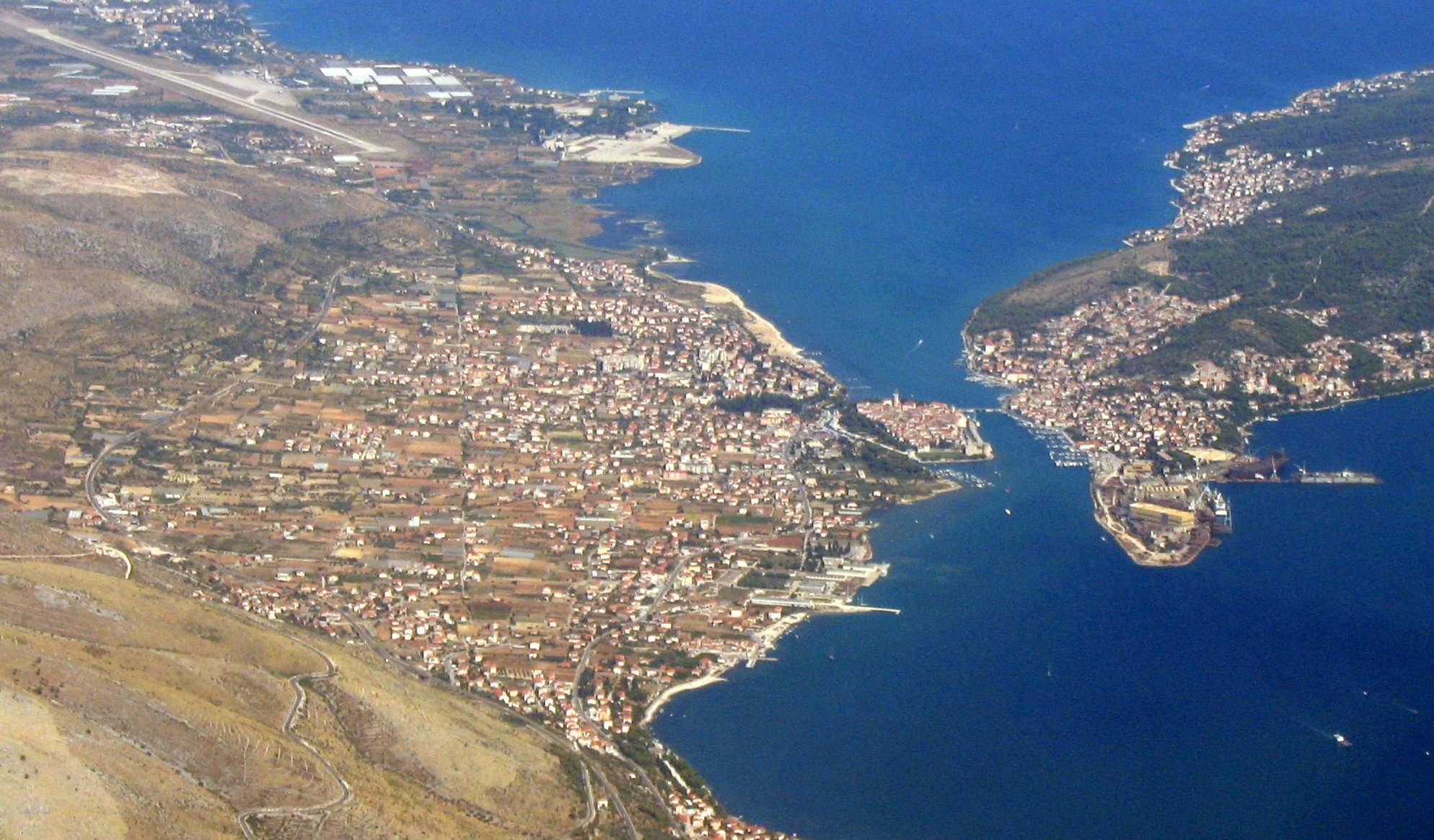 Aerial photo of Croatian city Trogir